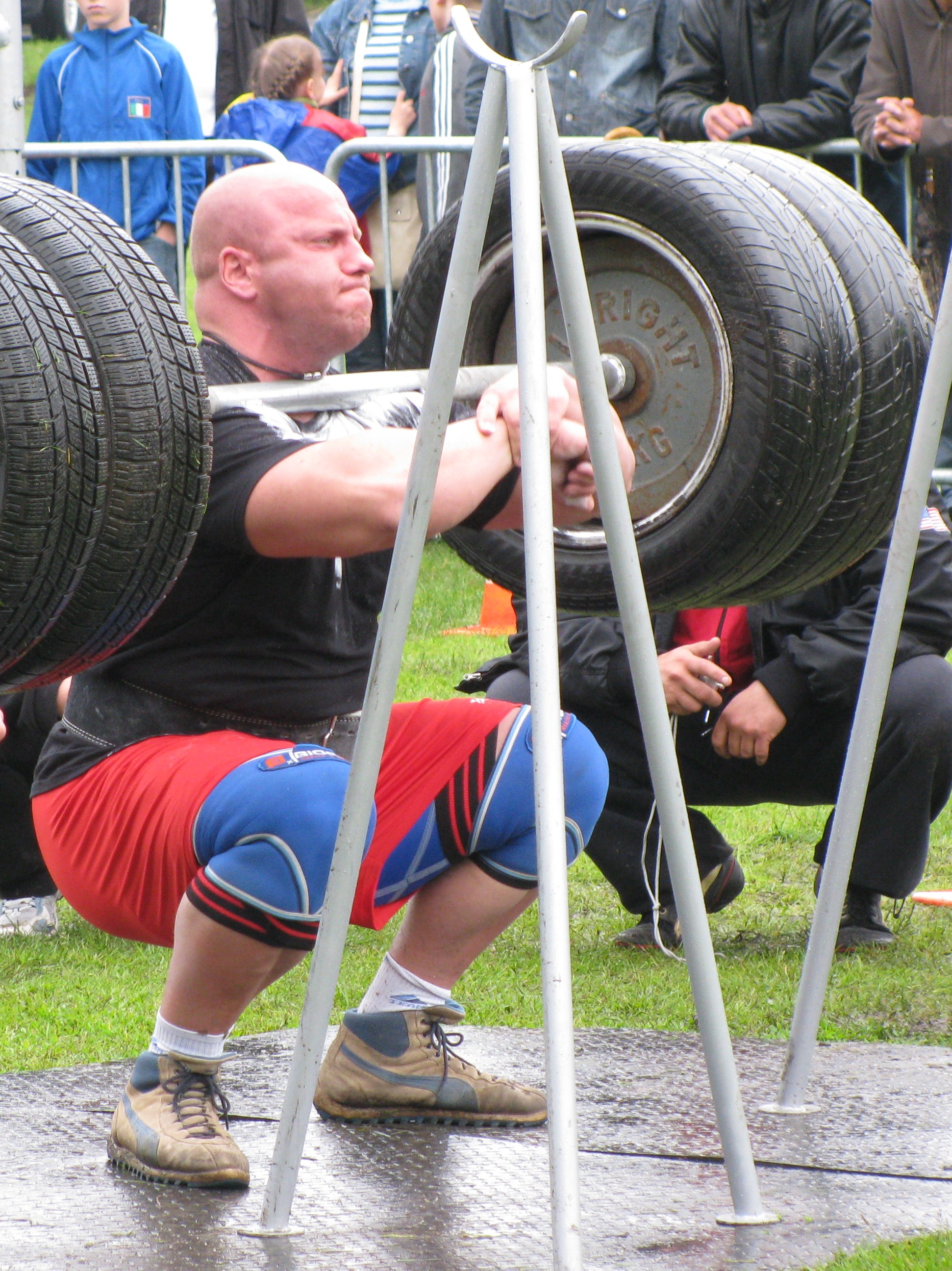 Robert Szczepanski - a strength athlete from Poland at Front Squat